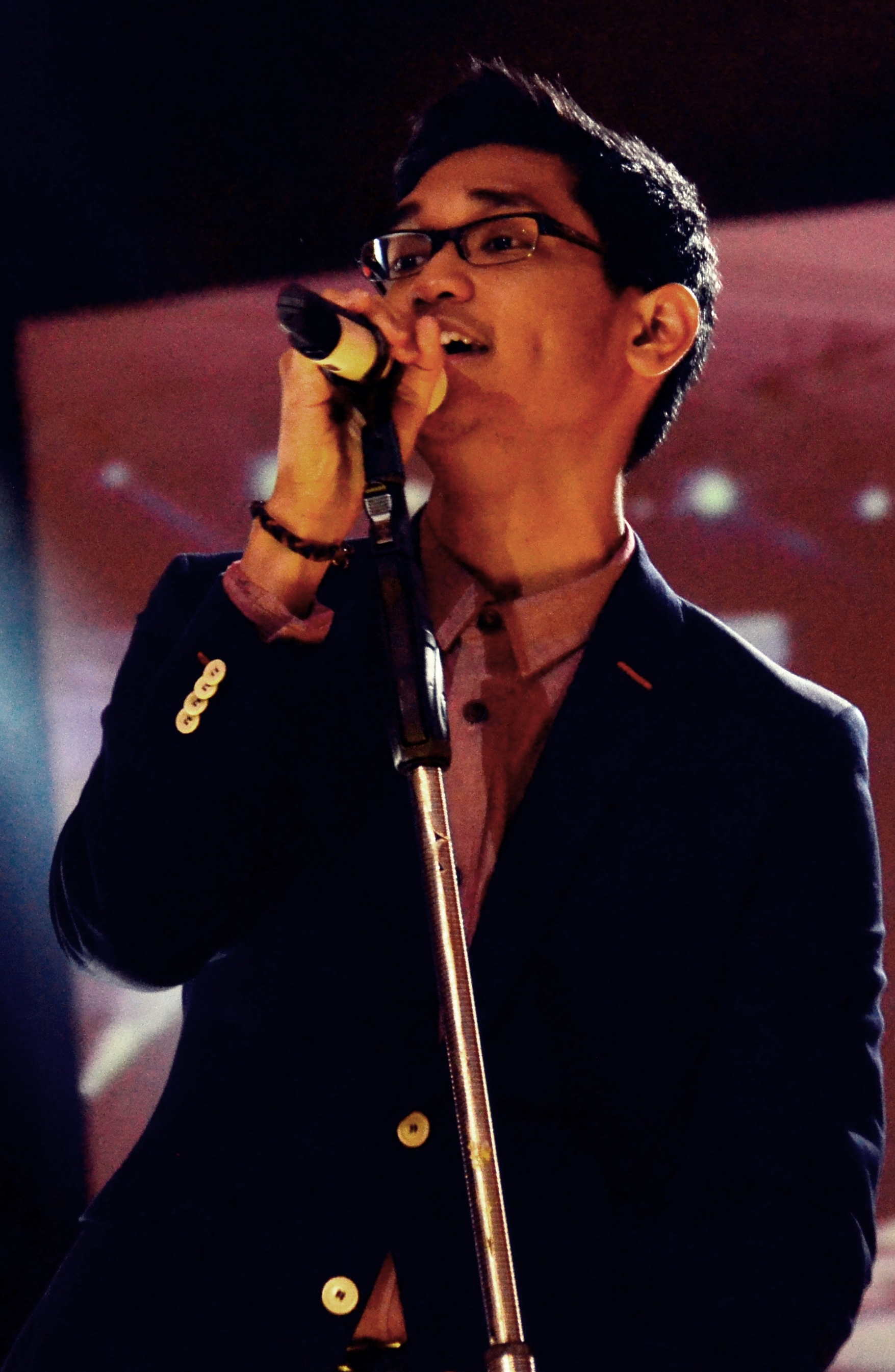 Afgansyah Rezza performing a song in 2013.